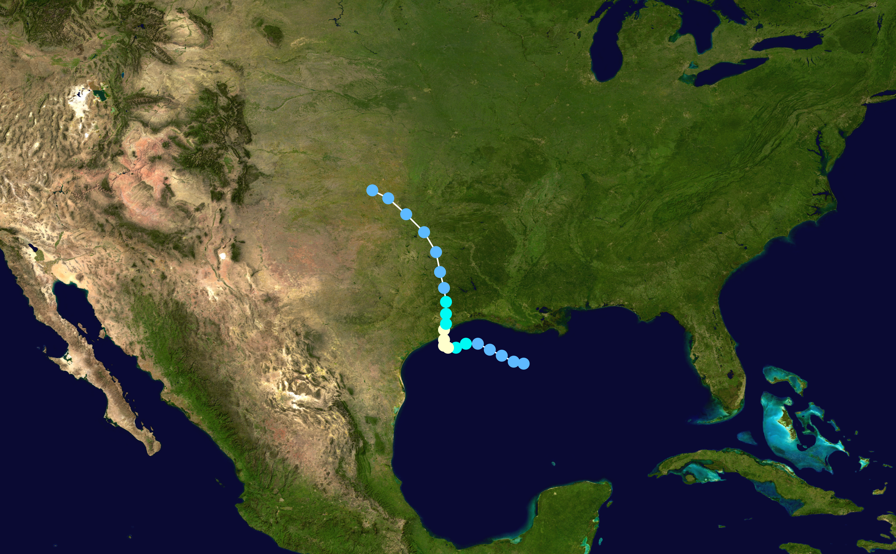 Track map of Hurricane Debra of the 1959 Atlantic hurricane season. The points show the location of the storm at 6-hour intervals. The colour represents the storm's maximum sustained wind speeds as classified in the Saffir-Simpson Hurricane Scale (see below), and the shape of the data points represent the nature of the storm, according to the legend below. Saffir–Simpson hurricane wind scale Tropical depression≤38 mph≤62 km/h Category 3111–129 mph178–208 km/h Tropical storm39–73 mph63–118 km/h Category 4130–156 mph209–251 km/h Category 174–95 mph119–153 km/h Category 5≥157 mph≥252 km/h Category 296–110 mph154–177 km/h Unknown Storm typeTropical cycloneSubtropical cycloneExtratropical cyclone / Remnant low / Tropical disturbance